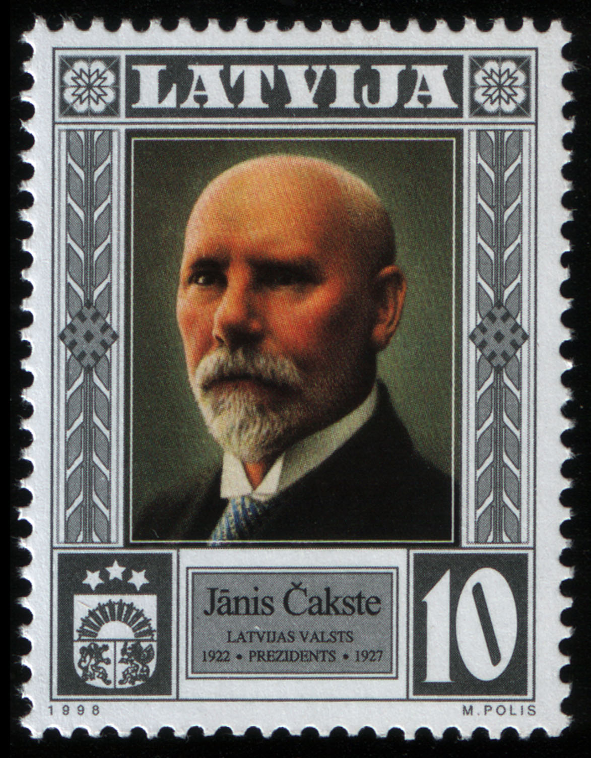 Stamp of Latvia, Yanis Chakste, 1998